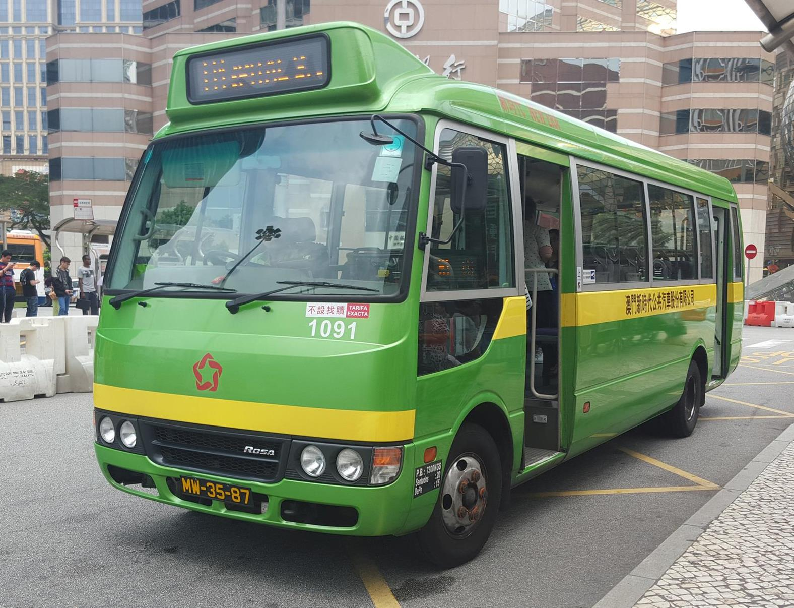 Rosa of New Era Bus 1091